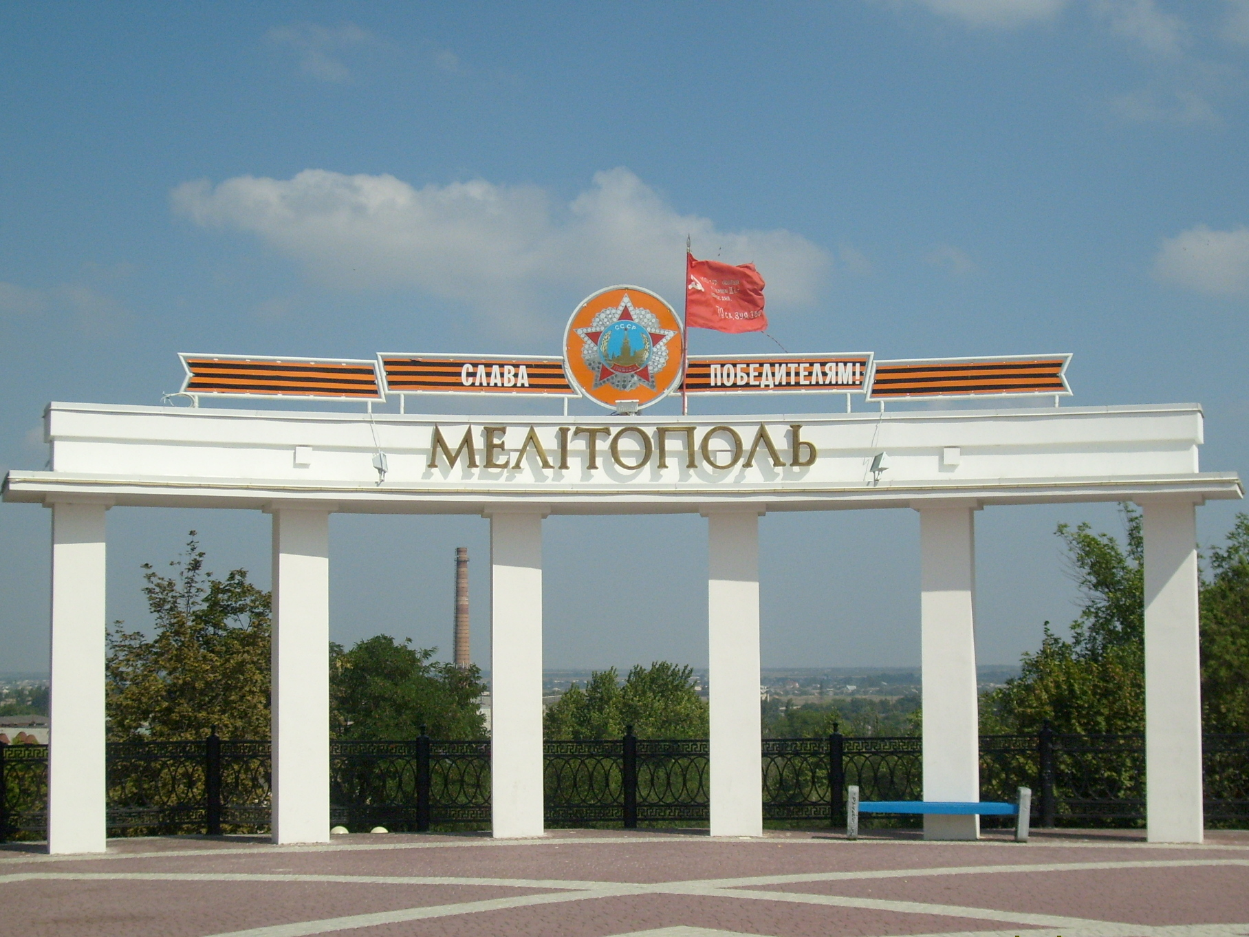 Colonnade at Victory Square in Melitopol, Ukraine. 21.08.2010